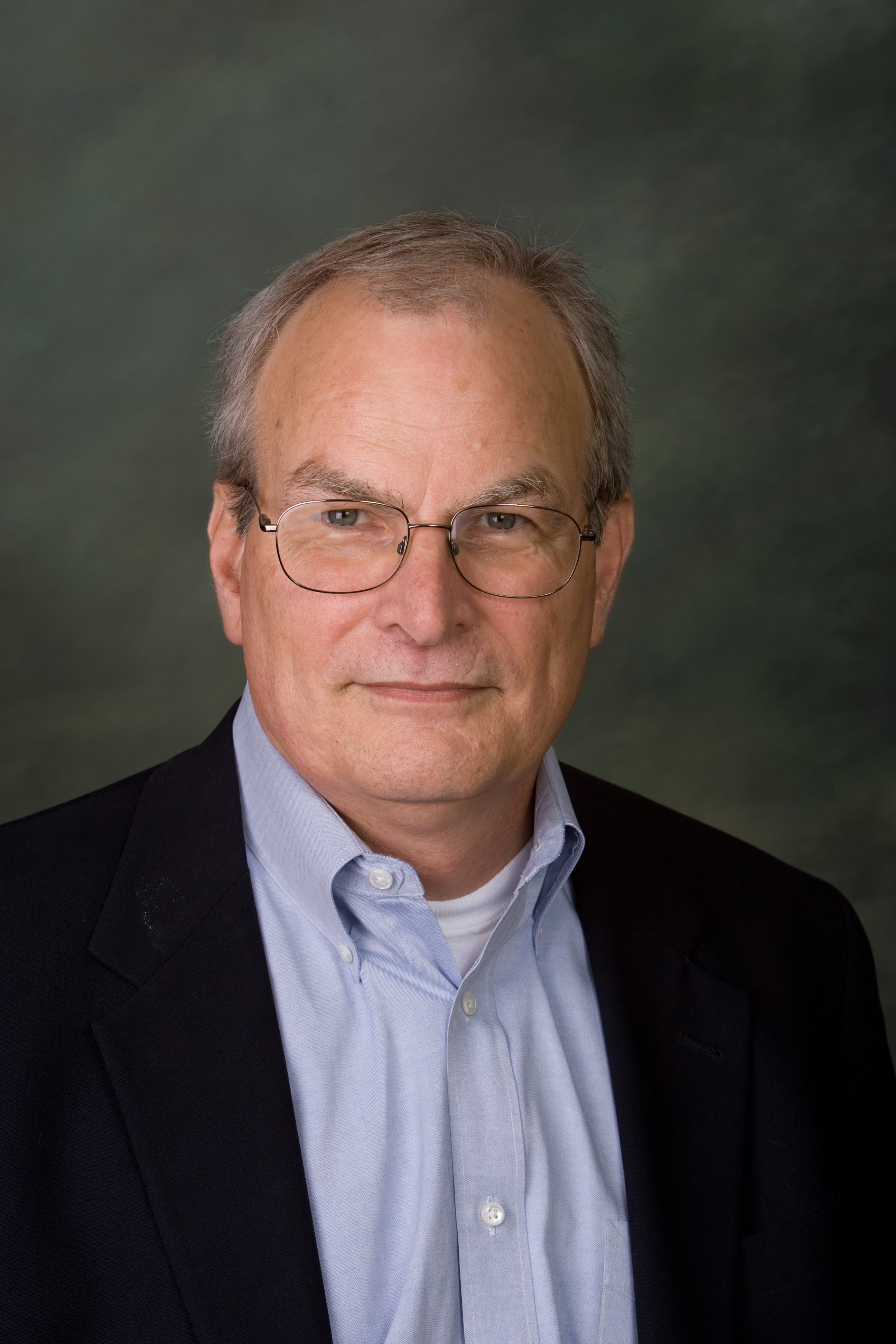 this is a picture of james burk